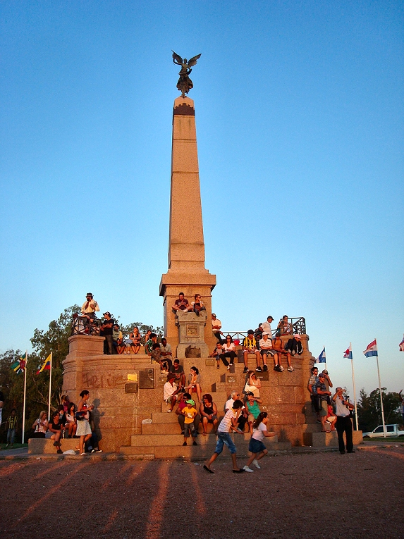 The Obelisk of Las Piedras, Canelones, Uruguay.